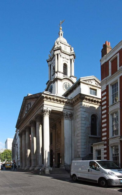 St George's Church, Hanover Square, London W1